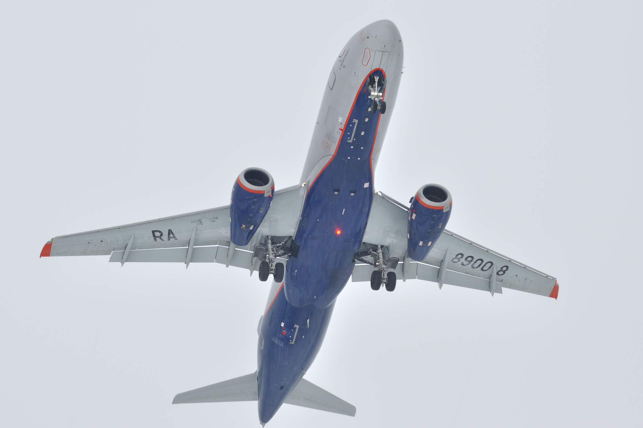 Sukhoi SSJ-100 RA-89008, airport UWWW (Russia, Samara), jan 2013